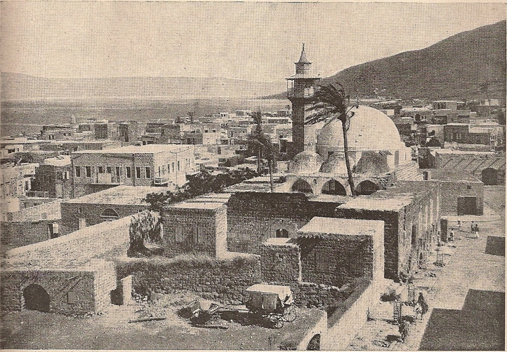 View of Tiberias pre-1920